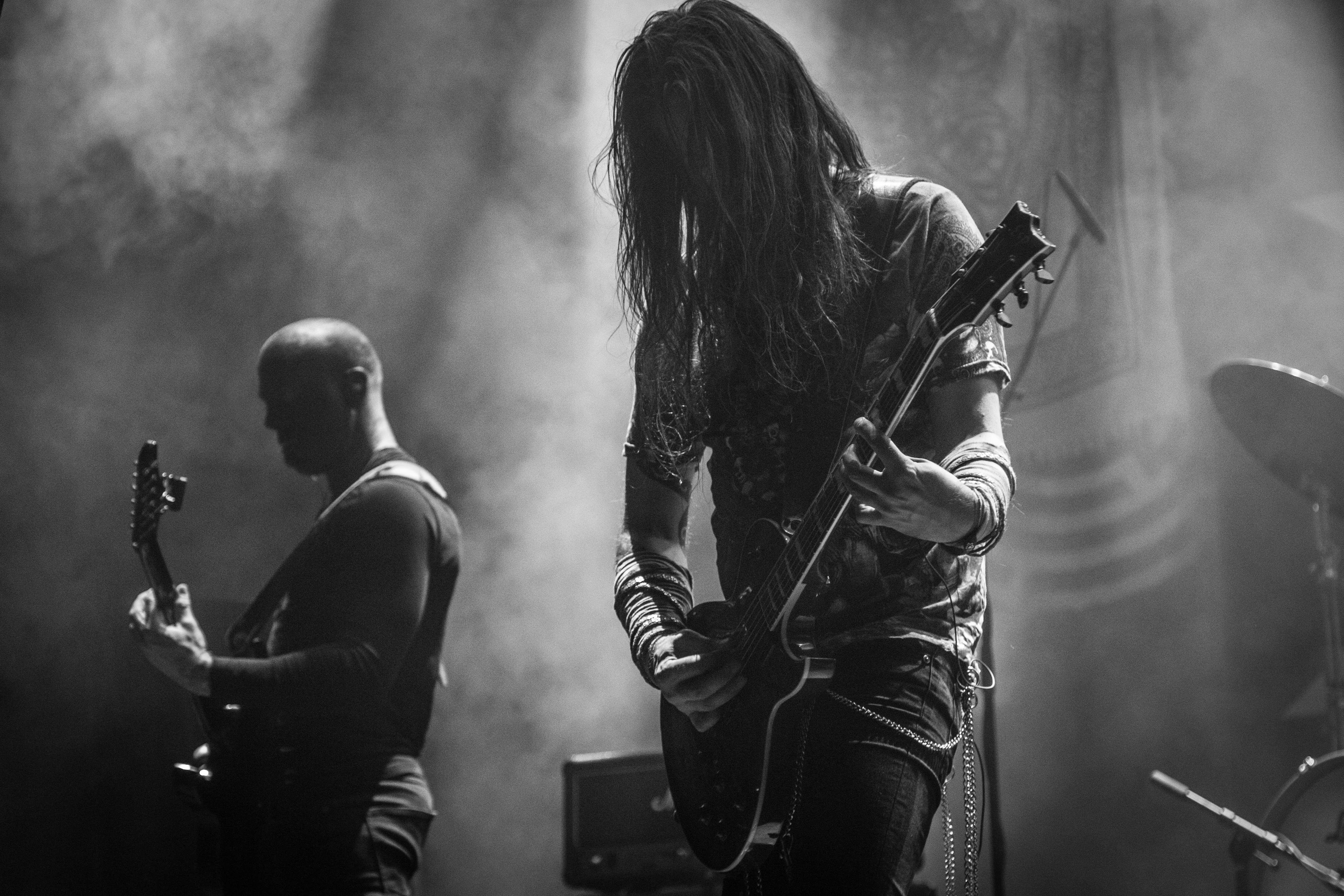 Dodheimsgard perfoming live at Complexity Fest, Patronaat, Haarlem, 2018